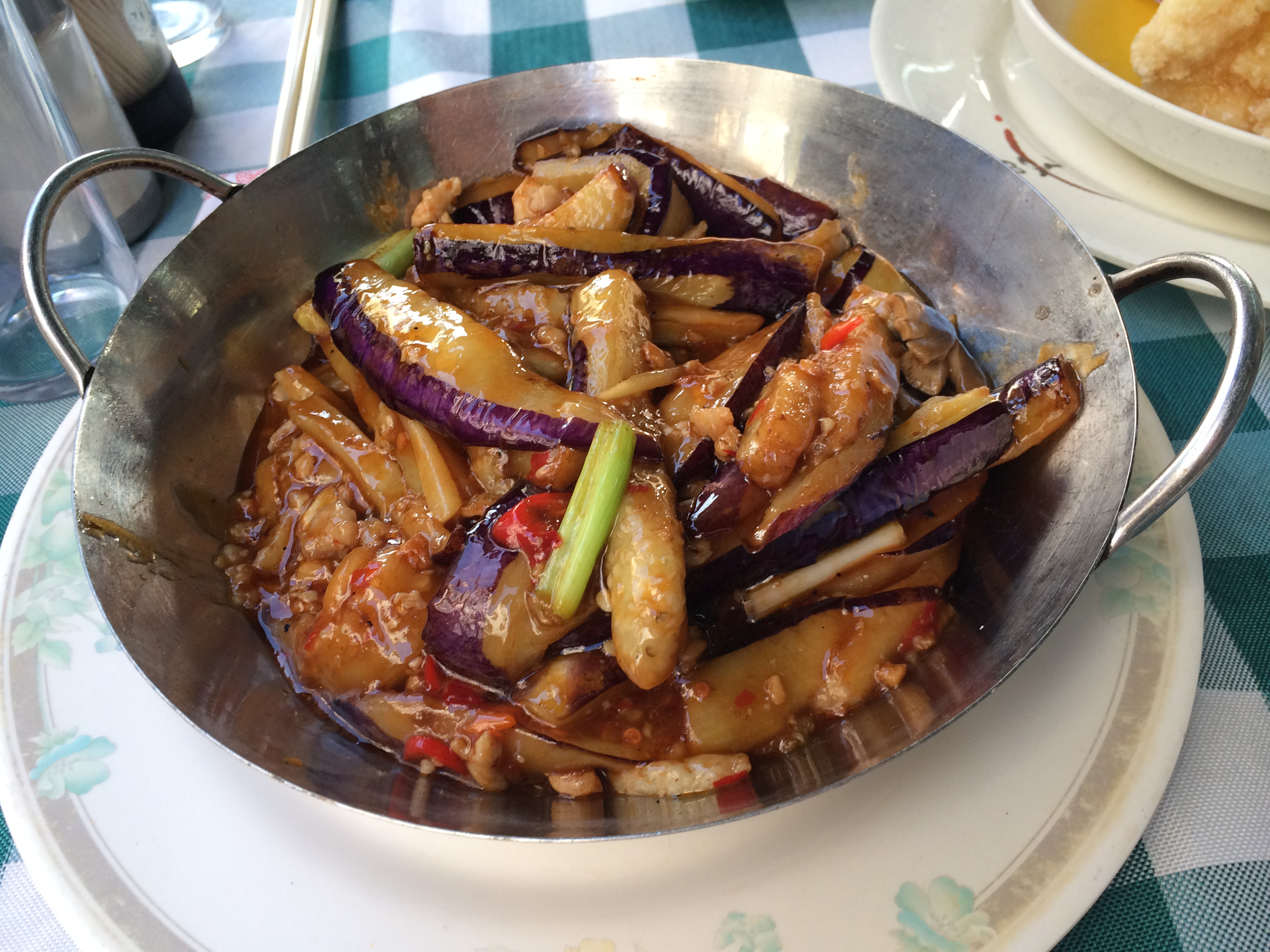 Yuxiang Eggplant in Hong Kong